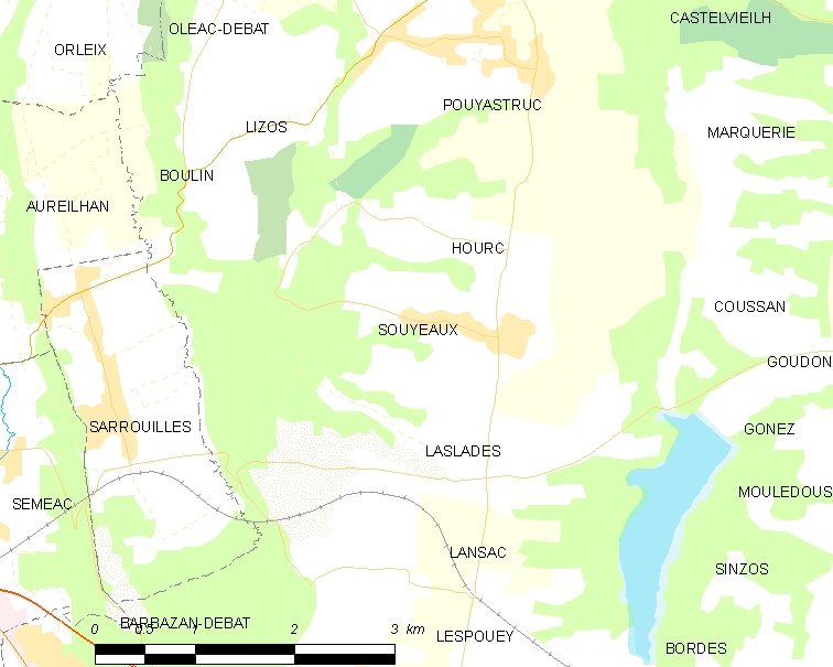 Map of French municipality